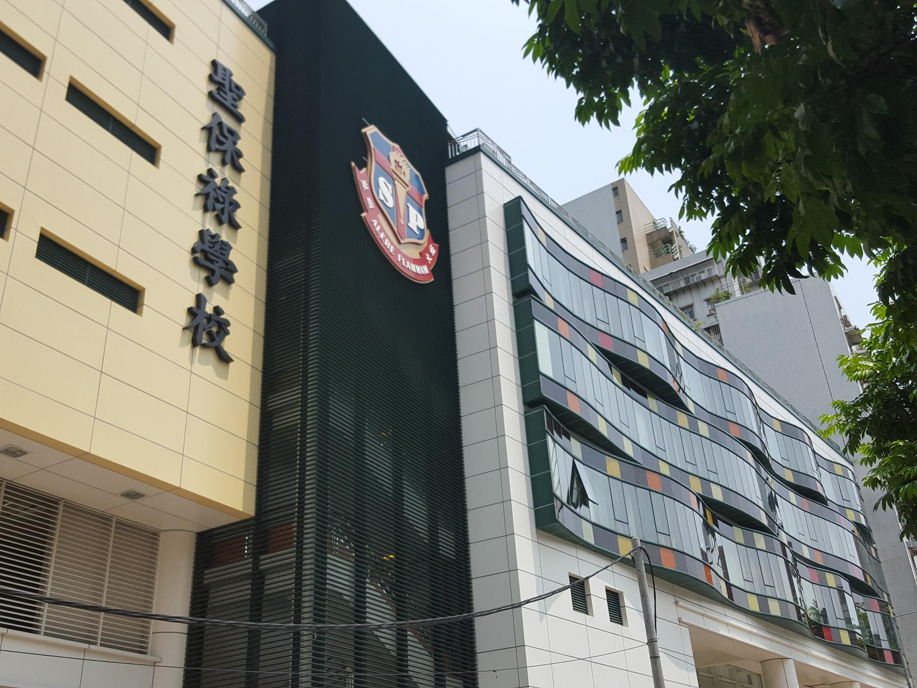 Escola SÃO PAULO